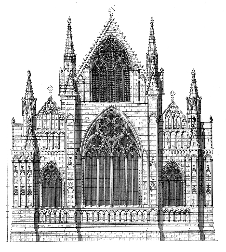 The east elevation of Lincoln Cathedral in England by G Dehio (died 1932).